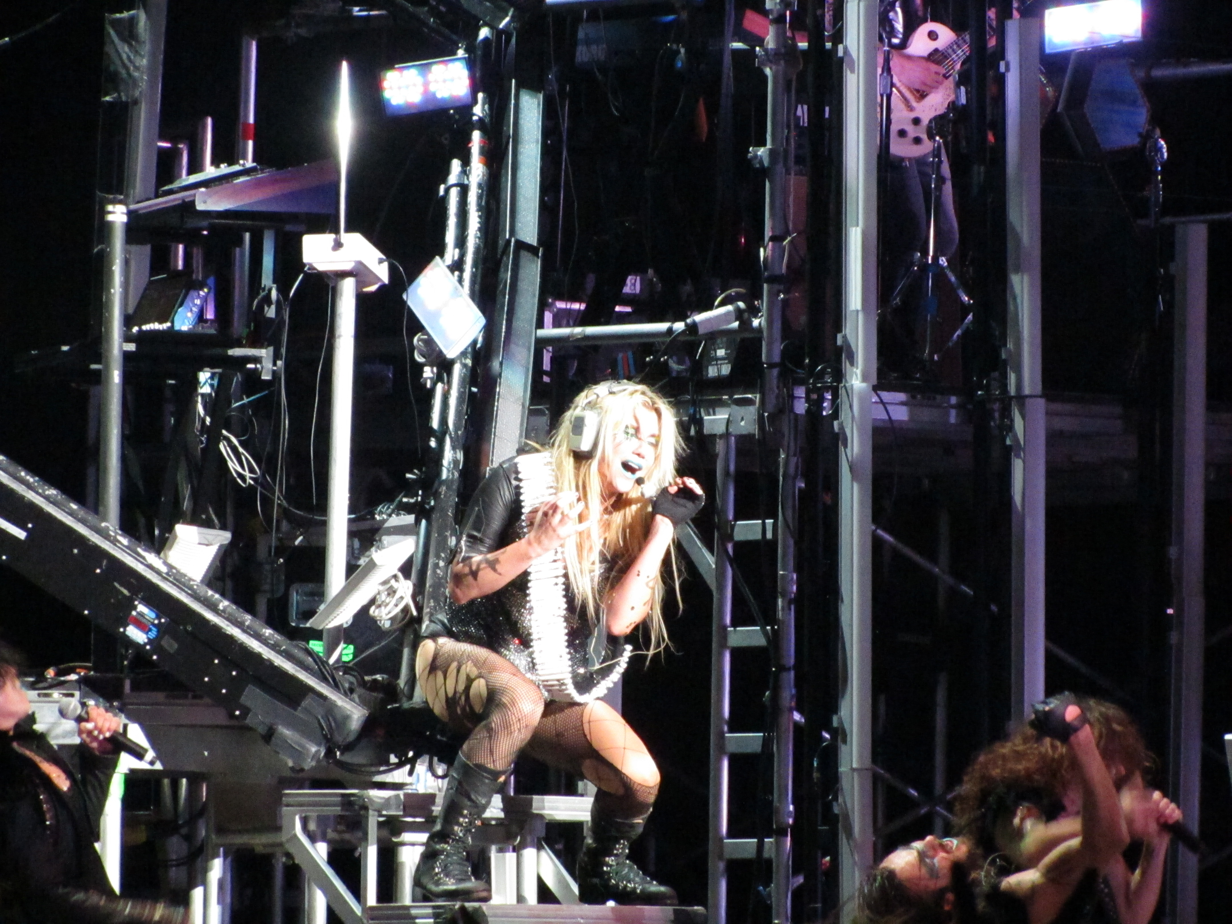 Kesha performing at Nikon at Jones Beach Theater in Wantagh, August 2011